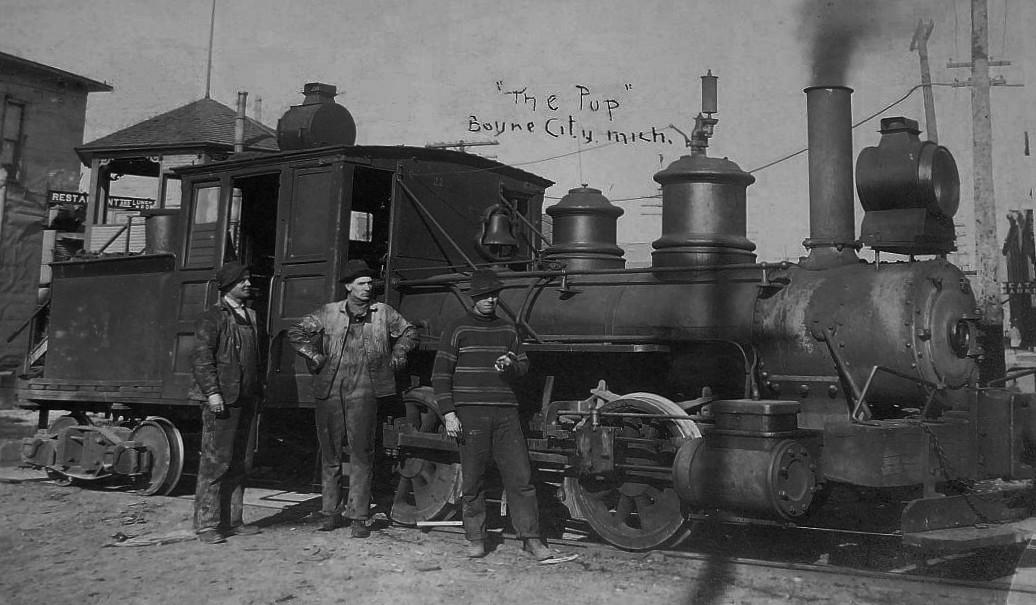 Postcard photo of the Boyne City, Gaylord and Alpena Railroad locomotive "The Pup".